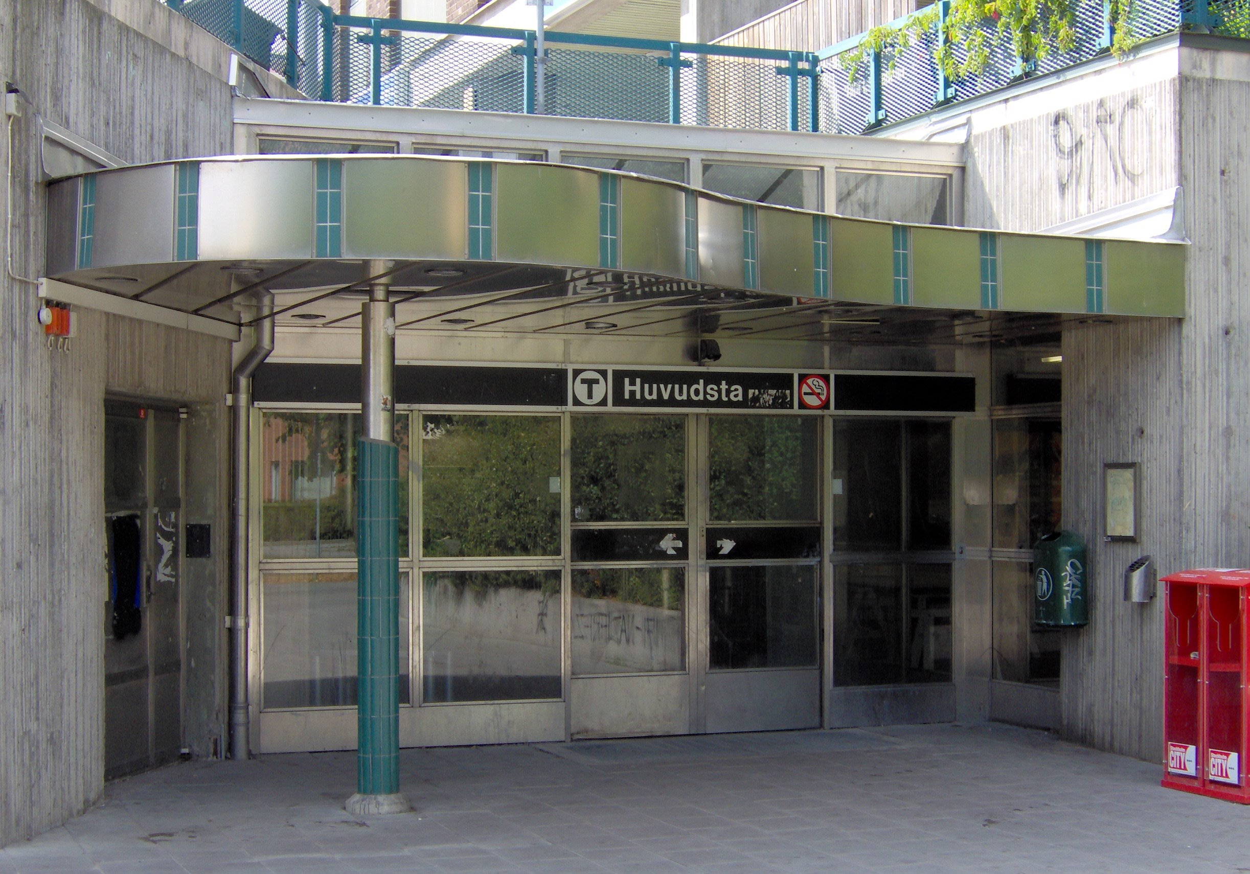 Entrance to the Stockholm metro station Huvudsta.